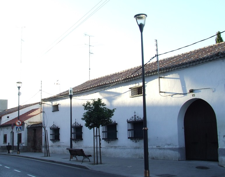 Móstoles is an autonomous community of the city Madrid in Spain.